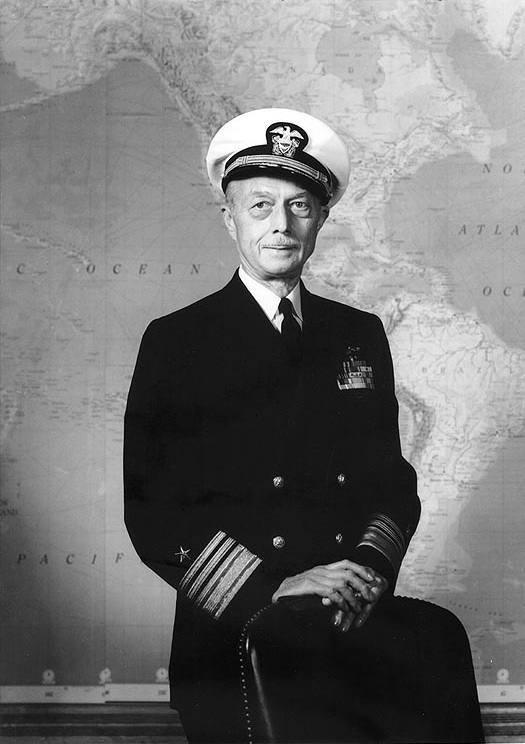 Vice Admiral Glynn R. Donaho, US Navy. VAdm. Donaho was Commander Military Sea Transportation Service at the time the photo was taken.